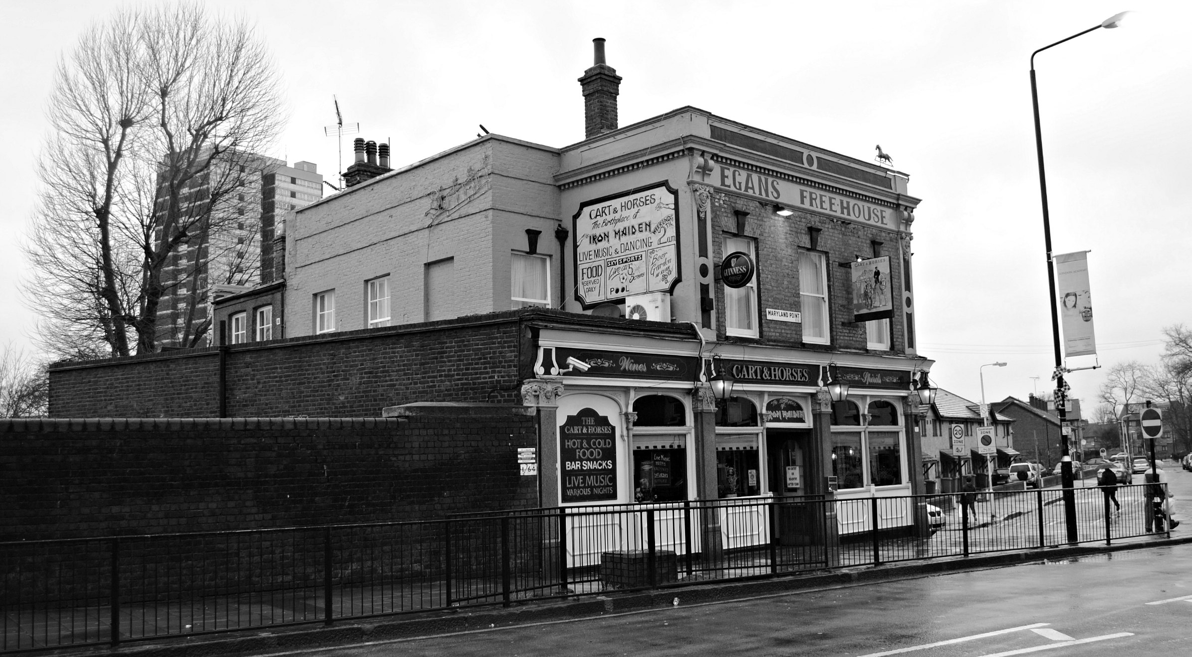 This is the pub where Iron Maiden played some of their first gigs.